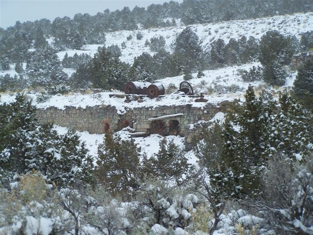 This is a shot of the Cortez Gold Mine Complex at the Abandoned town of Cortez. (I make note of the complex being at the Abandoned Town of Cortez, as there is a working gold mine in the area called Cortez. I would aproximate it to be 20 or so miles westish) An interesting sidenote here, might be to notice all of the masonry work. Most all of the usful trees in the area were taken down and turned into charcoal to run the smelting ovens, (on C. deck) I included the red dots to make it easier for you to see the different tiers of the abandoned complex. The dots should help put the close up photos into perspective. When the snow clears, I am sure I will be able to find much more here to document with my camera. I very much hope you enjoy the photos.